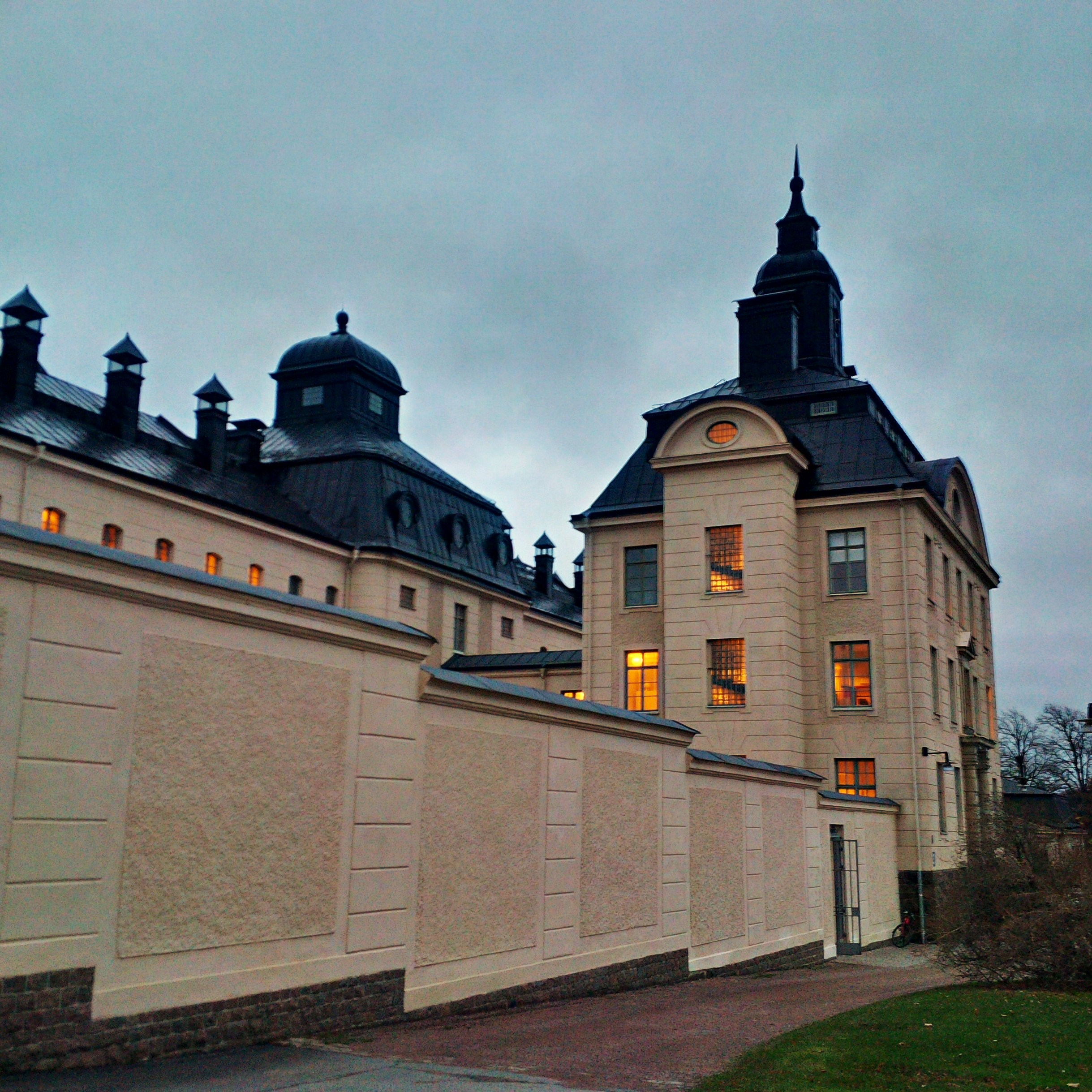 Central Prison in east Gothenburg in use from 1907 to 1997. It has architecturally resemblance to the American prisons San Quentin and Alcatraz.